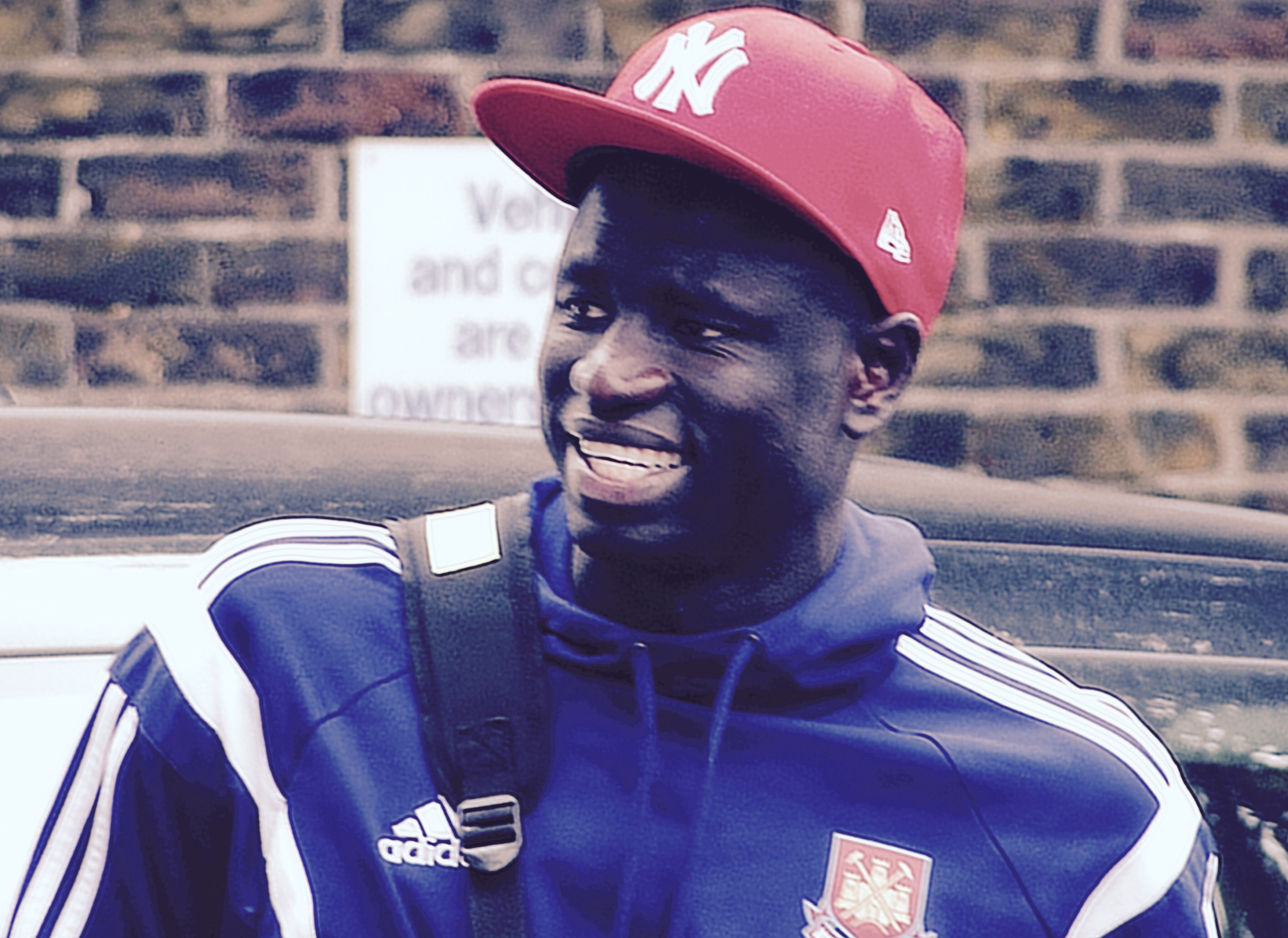 West Ham United player, Chiekhou Kouyate arriving at West Ham's Upton Park ground before a match.